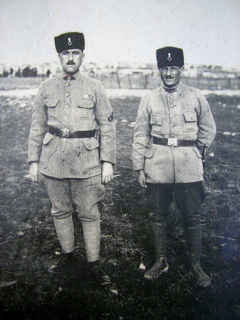 Caliphate Army soldiers